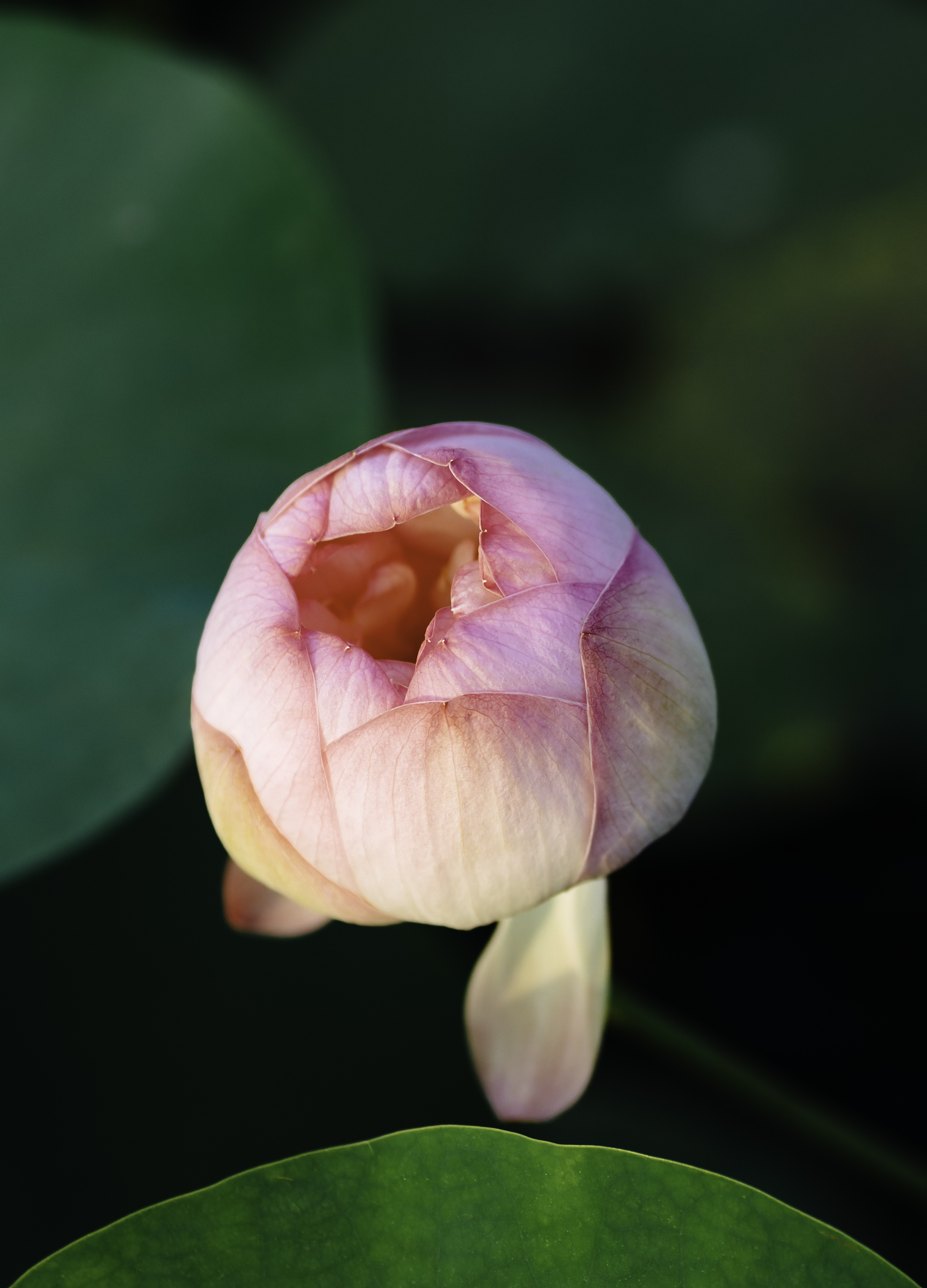 A budding lotus flower